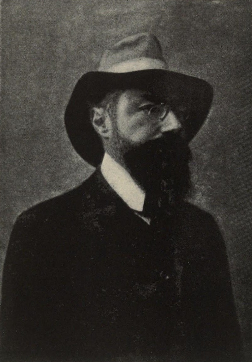 Picture of Francis Jammes